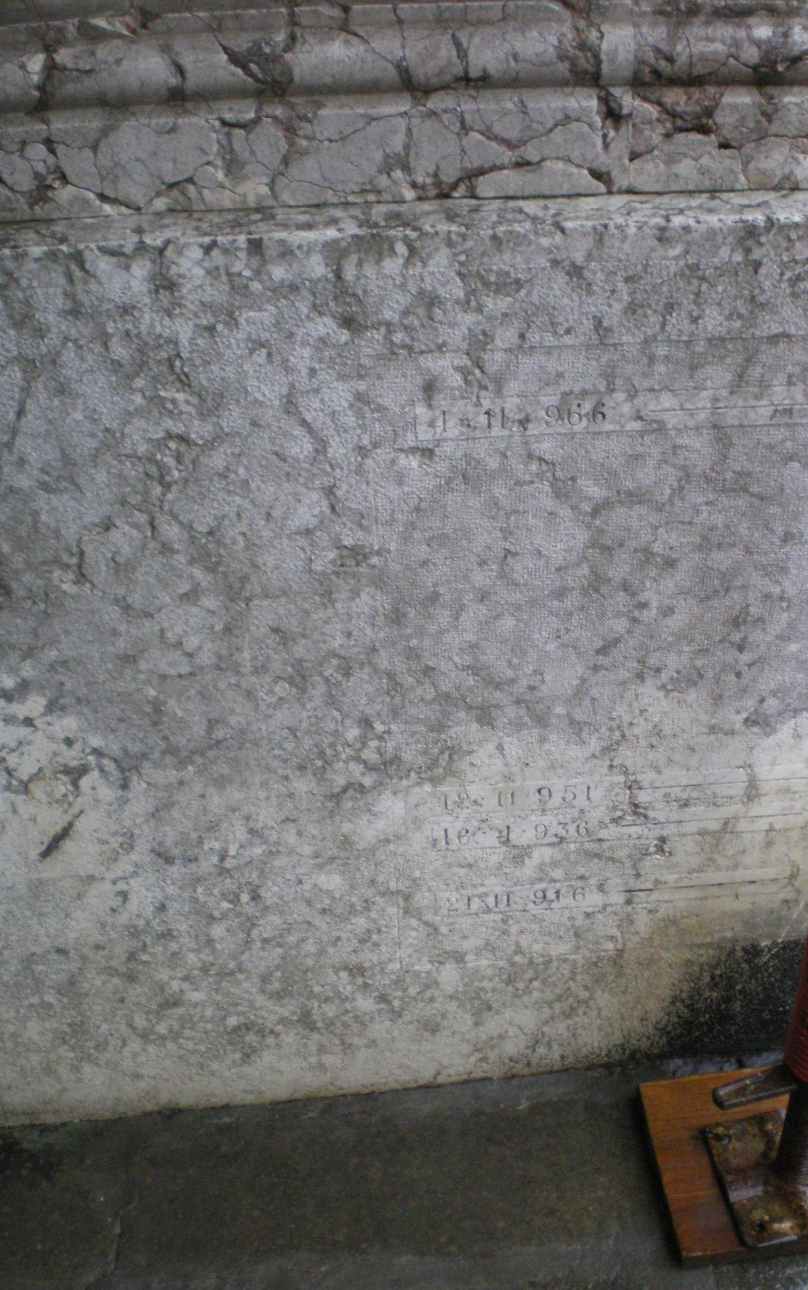 Historical inscription marks of floods on the wall of Ca' Farsetti (Venice's City Hall)